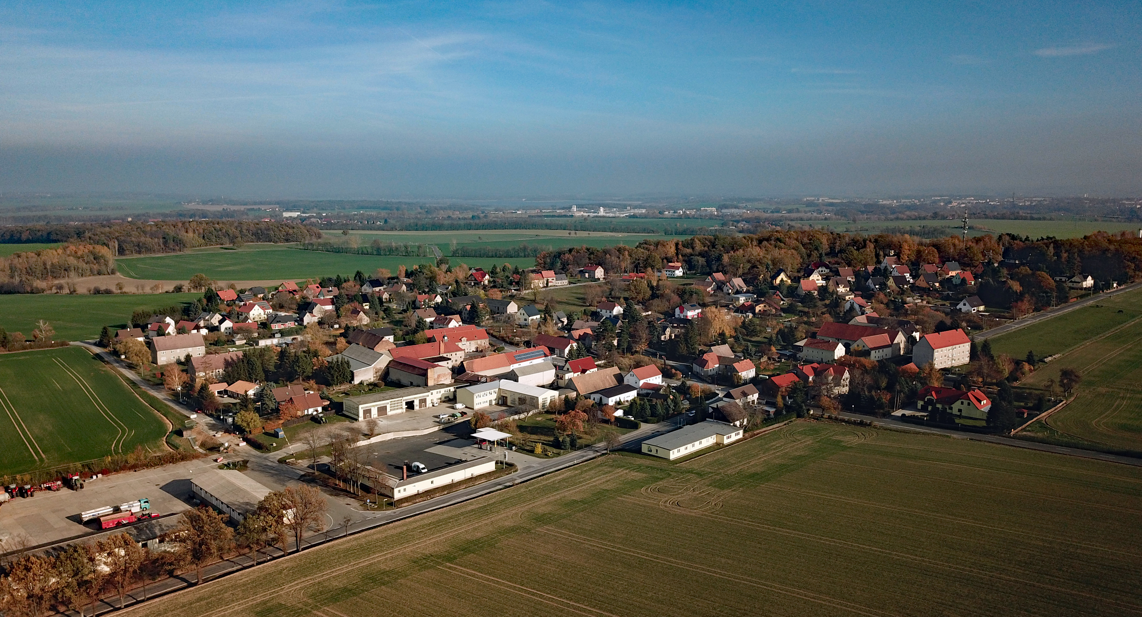 Salzenforst (Bautzen, Saxony, Germany) Hornjoserbsce: Powětrowy wobraz Słoneje Boršće